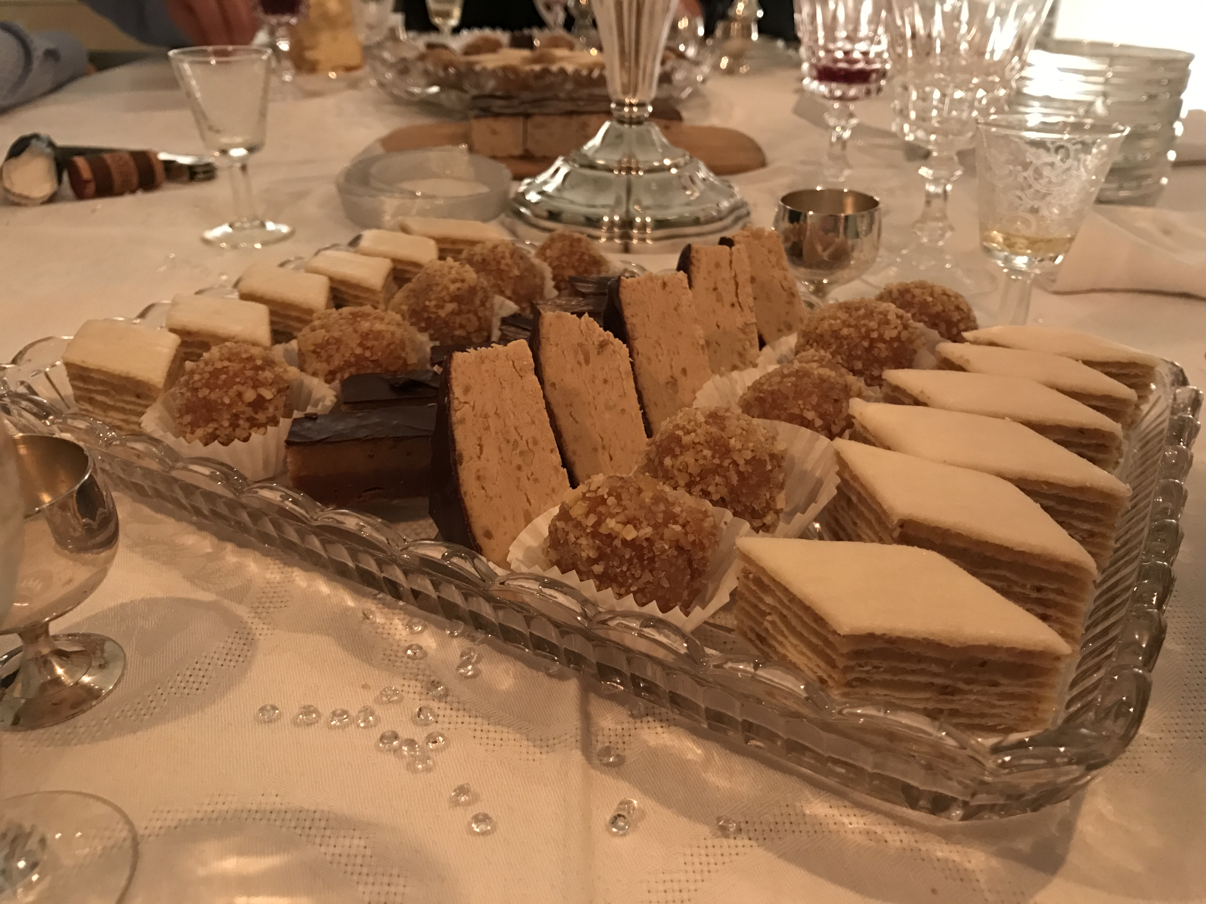 Traditional Serbian deserts served for Slava